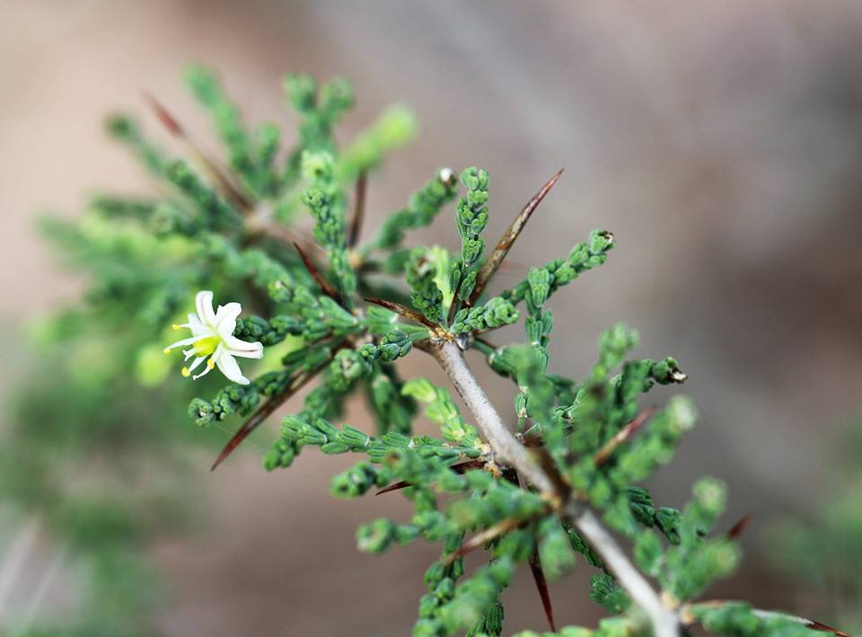 Asparagus capensis L. - Elandsbaai, West Coast, Cape Town, South Africa